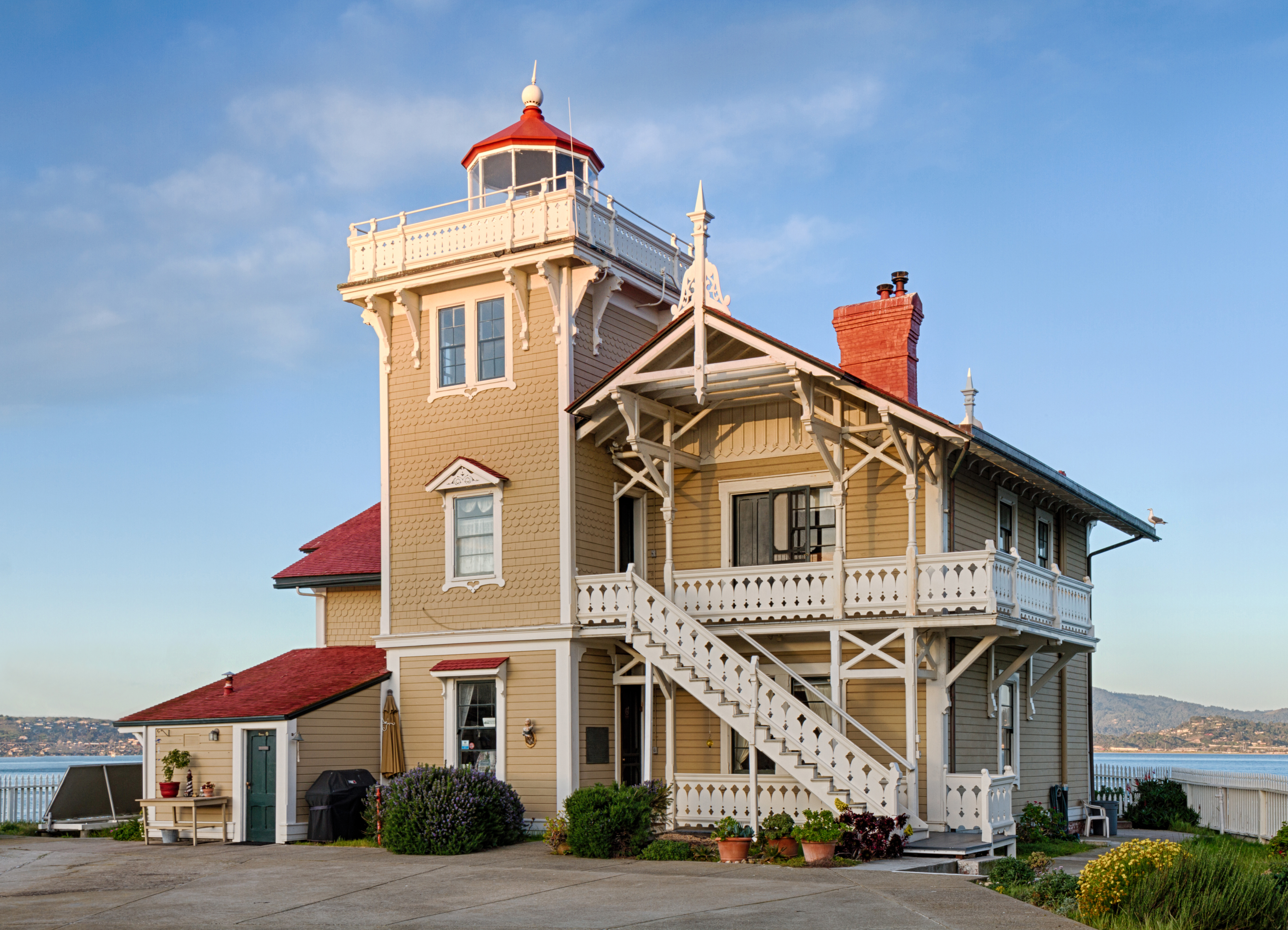 East Brother Light in San Pablo Bay near Richmond, California.